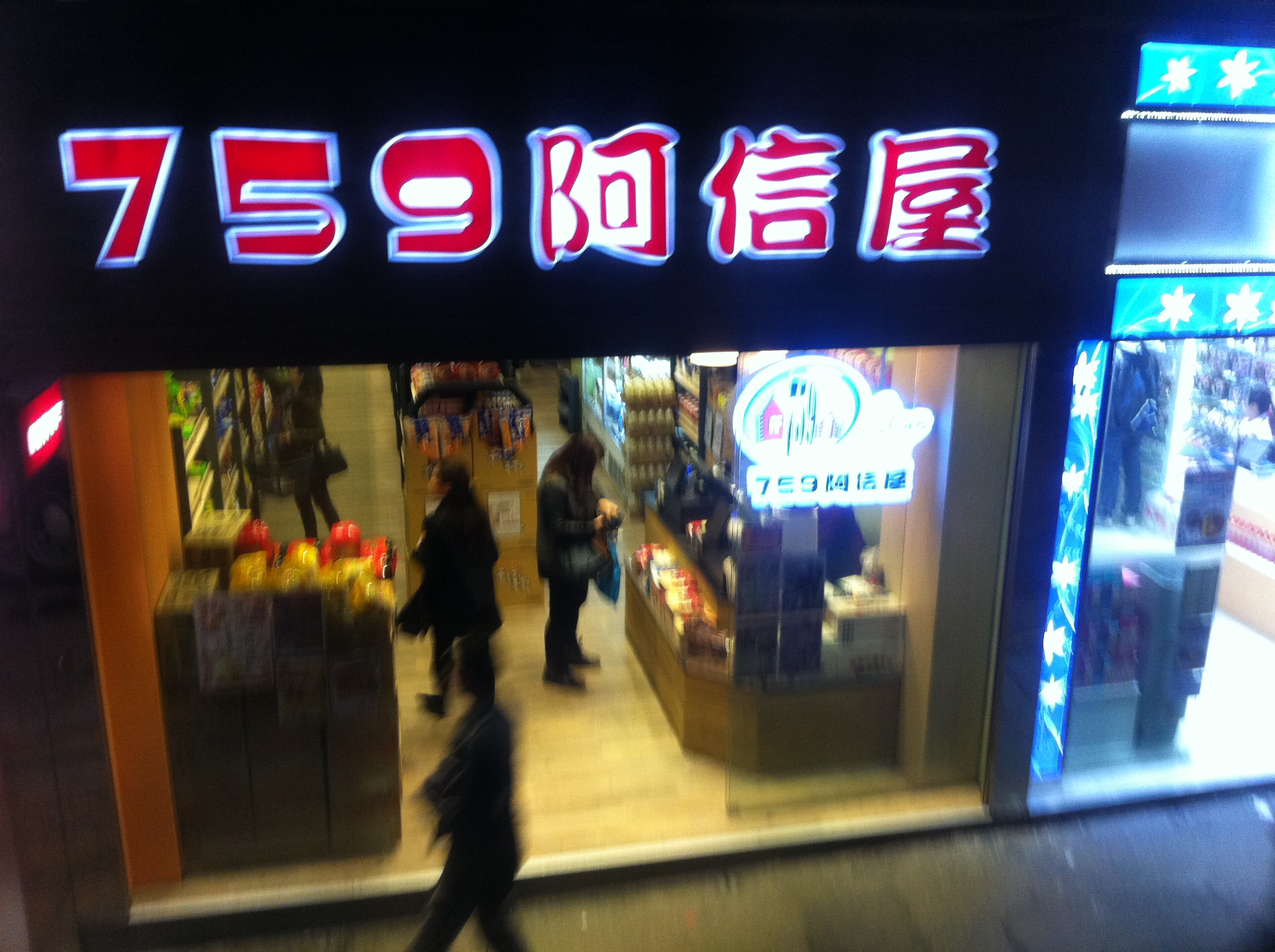 759阿信屋, 域多利皇后街, 759 Store, Queen Victoria Street, Central, Hong Kong